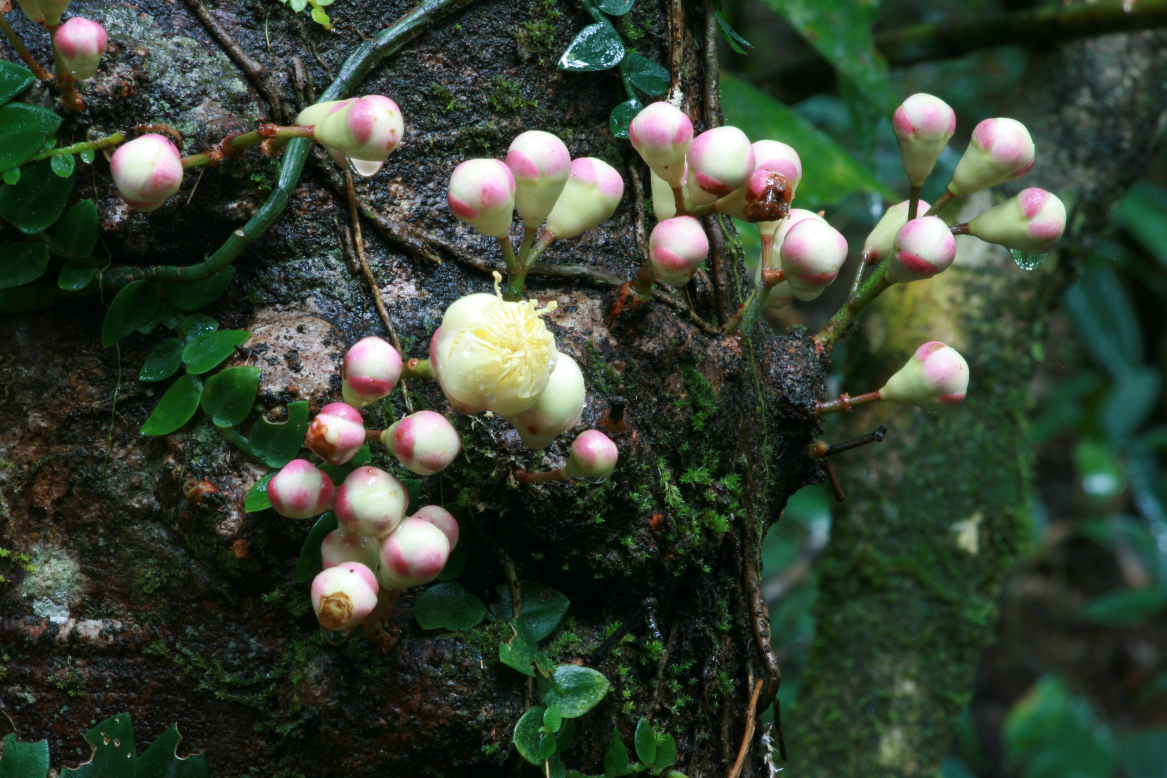 Cauliflory in a Syzygium species in the rainforest along the Marrdja walk near Cape Tribulation. (species identification not complete, help would be welcomed)